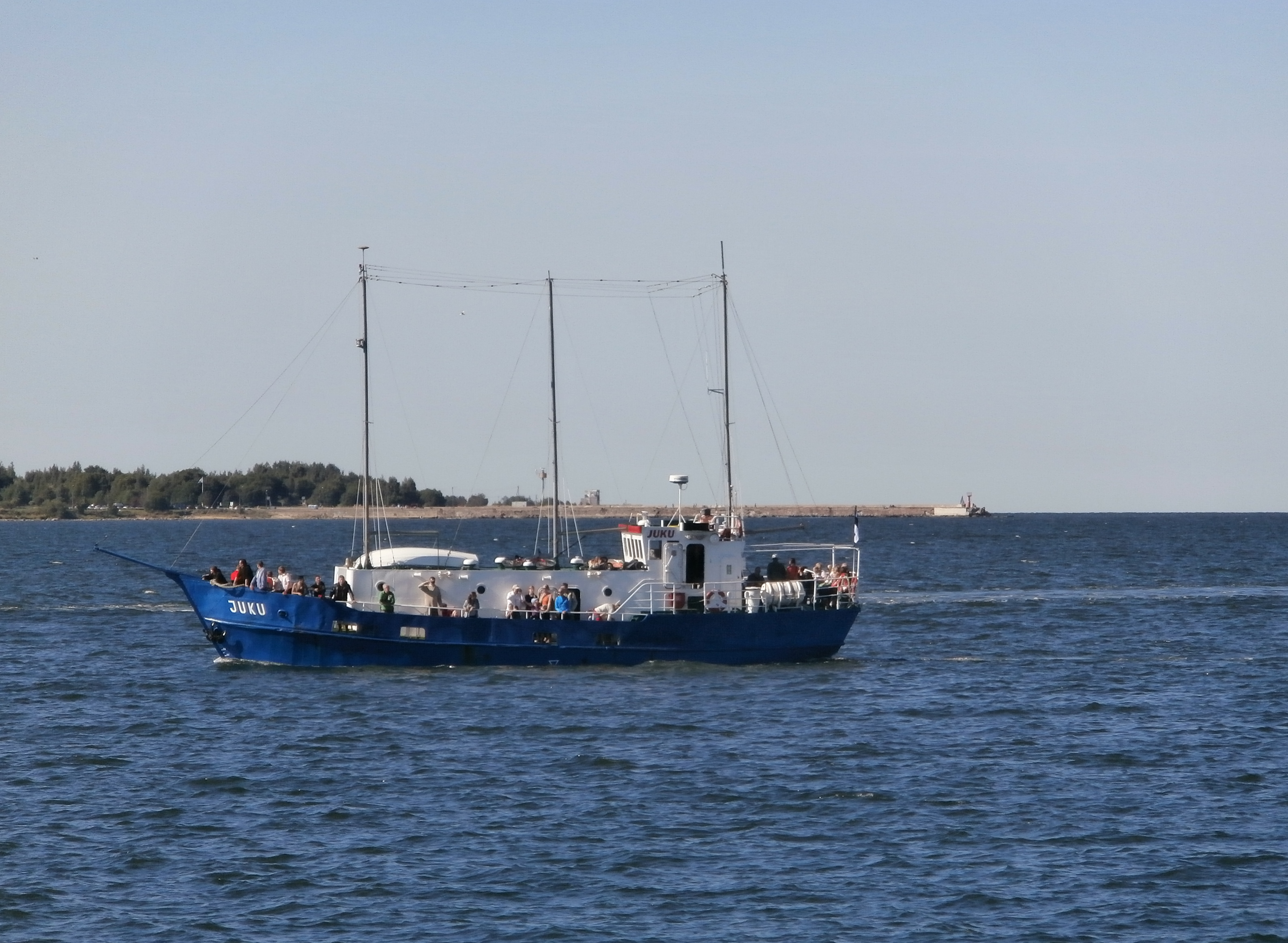 Juku approaching Kalasadam Tallinn 25 August 2013